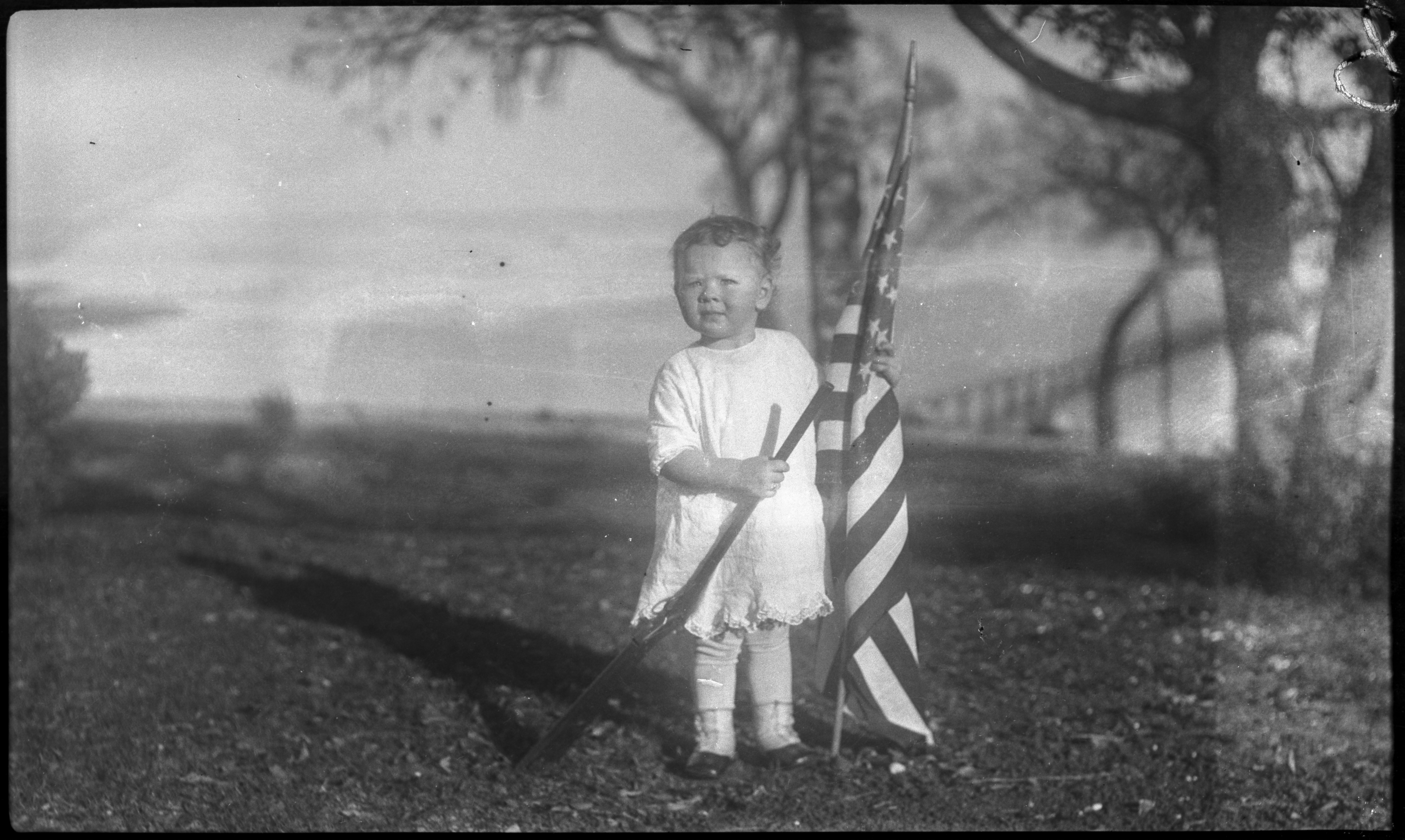 A small child in Texas wearing a dress and holding an American flag with her left hand and a long gun with her right hand.